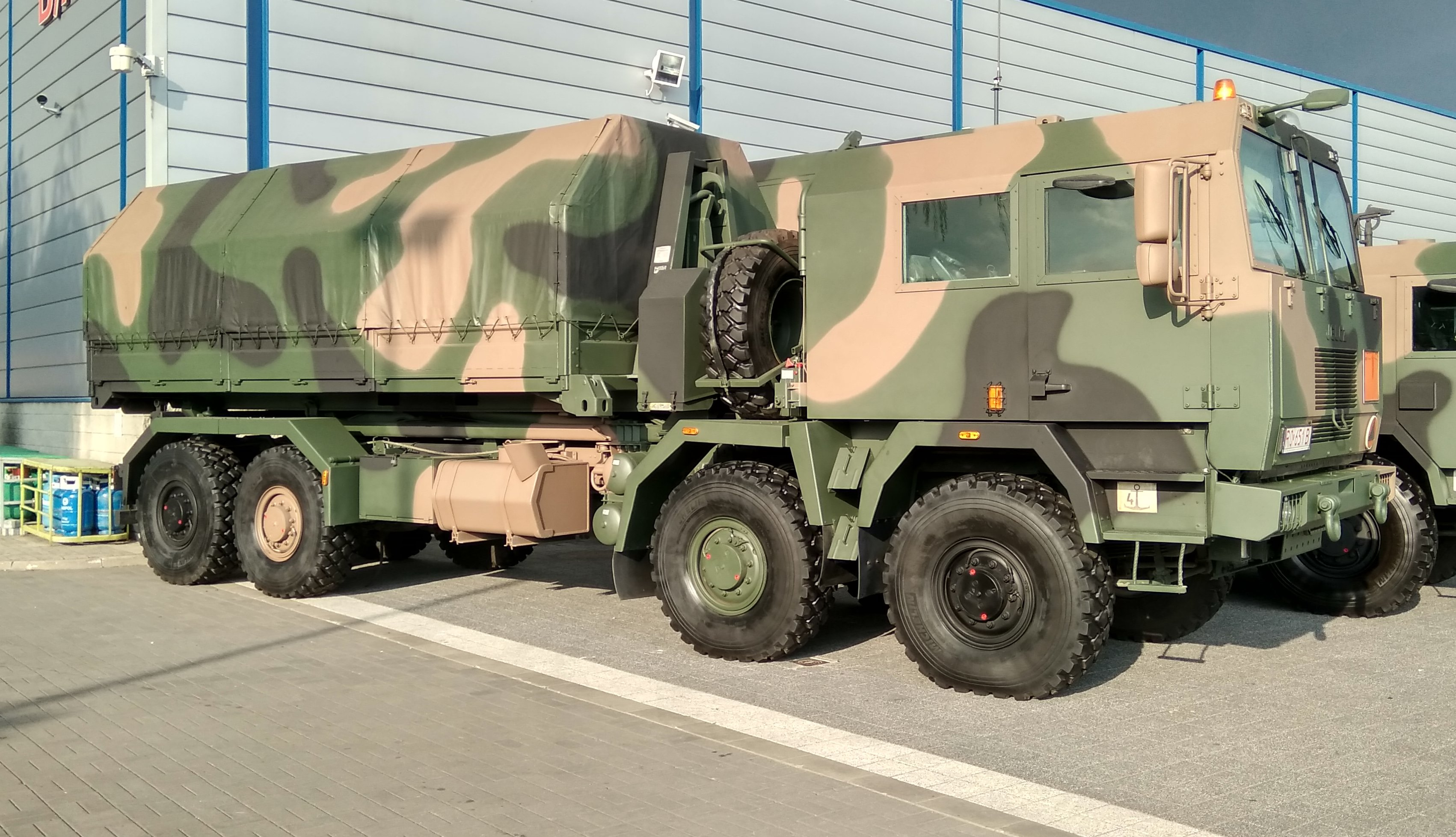 polish JELCZ military truck 8x8